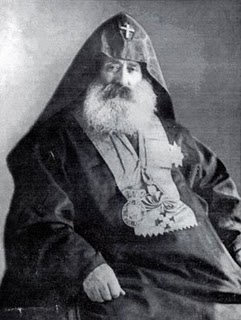 Catholicos of all Armenians Mkrtich Khrimyan